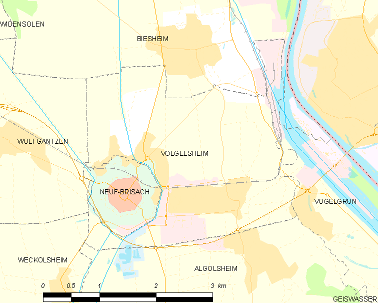 Map of French municipality